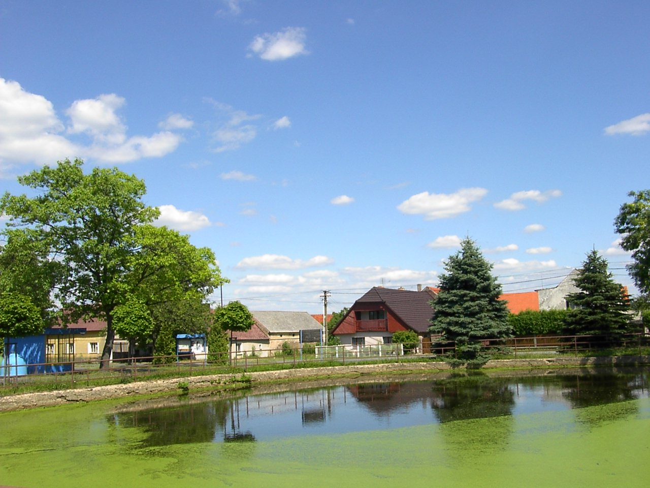 East side of village square in Sirá